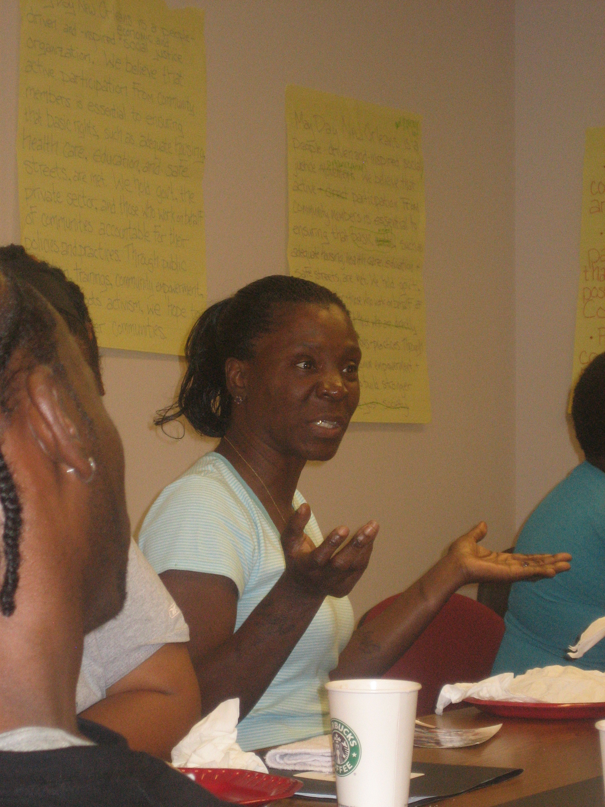 Stephanie Mingo of Survivors Village particpates in NESRI's Human Right to Housing training